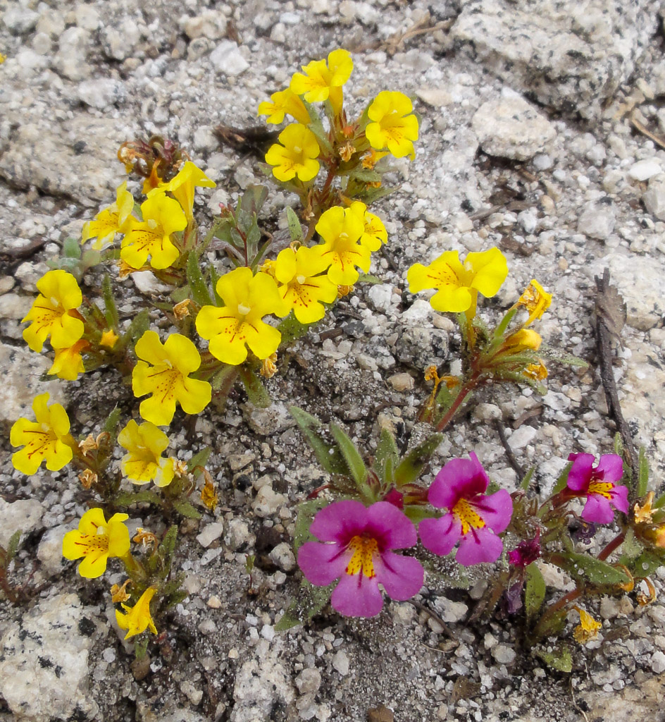 'Mimulus mephiticus (formerly Diplacus mephiticus) — Skunky monkeyflower. Population with magenta / yellow flower color polymorphism, ca 3,100 metres (10,200 ft) elevation on Mount Hoffman, Yosemite National Park, Sierra Nevada, California. August 2011.